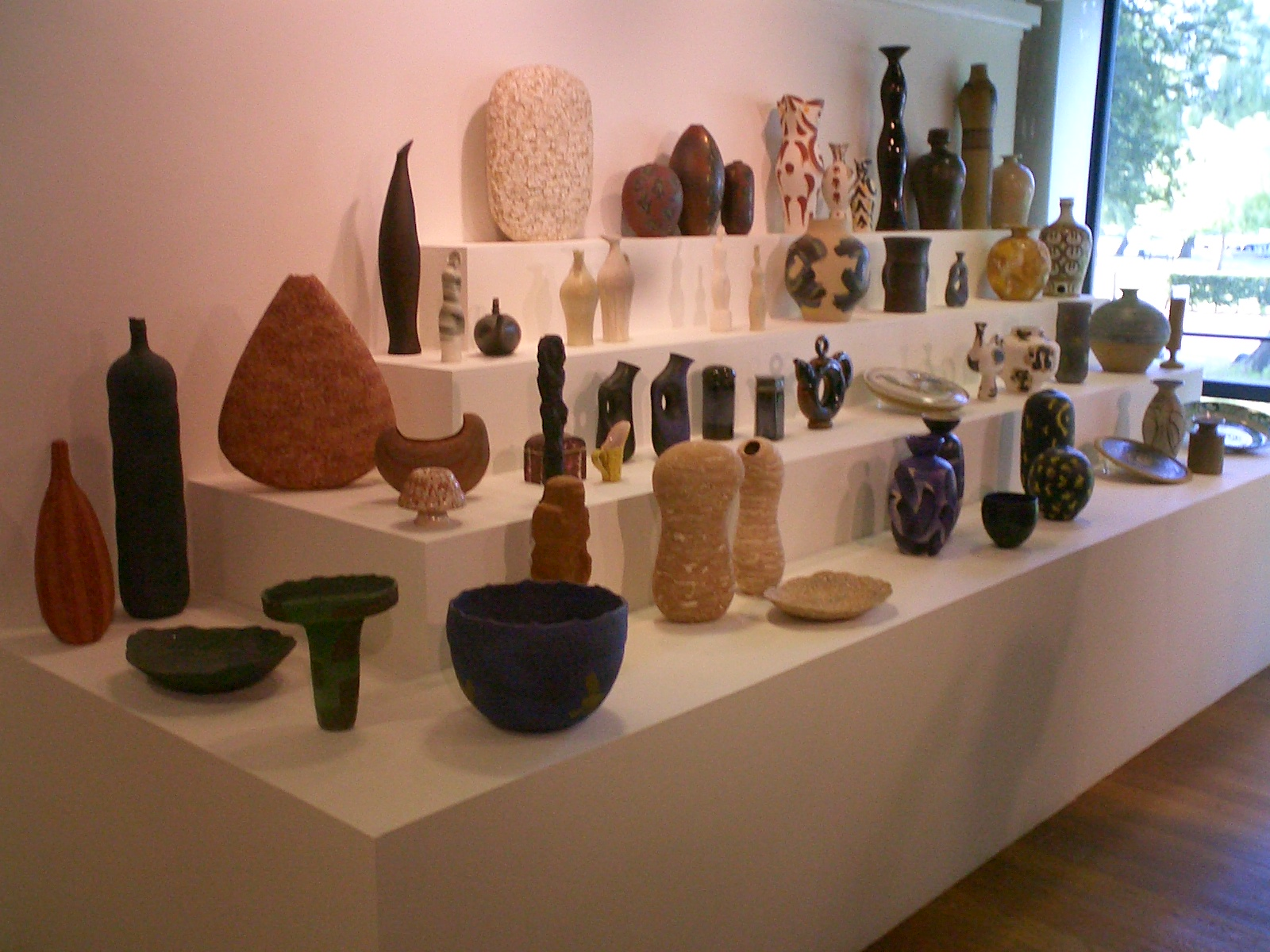 Pots by Geoffrey Eastop at an exhibition of his work at the River and Rowing Museum, Henley-on-Thames, Oxfordshire, in 2005